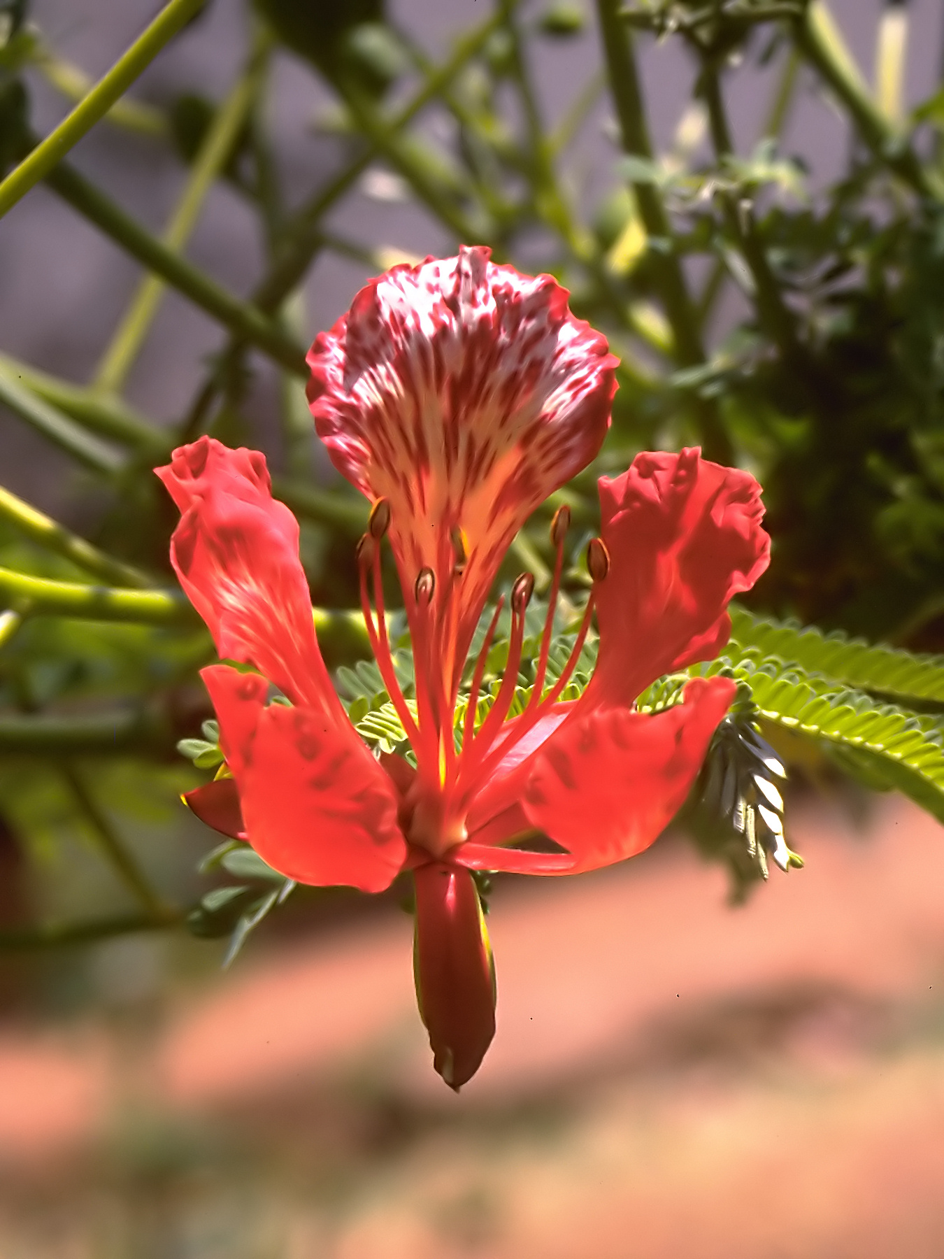 Flower at Chizongwe Secondary School in Chipata, Zambia. Kodak photo CD from slide